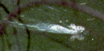 A swamp rabbit (Sylvilagus aquaticus) that was chased away by President of the United States Jimmy Carter in a boat in Plains, Georgia. This led to the "Jimmy Carter rabbit incident".